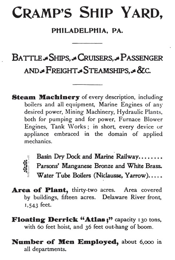 An 1899 advertisement for William Cramp & Sons, the Philadelphian shipbuilding company.